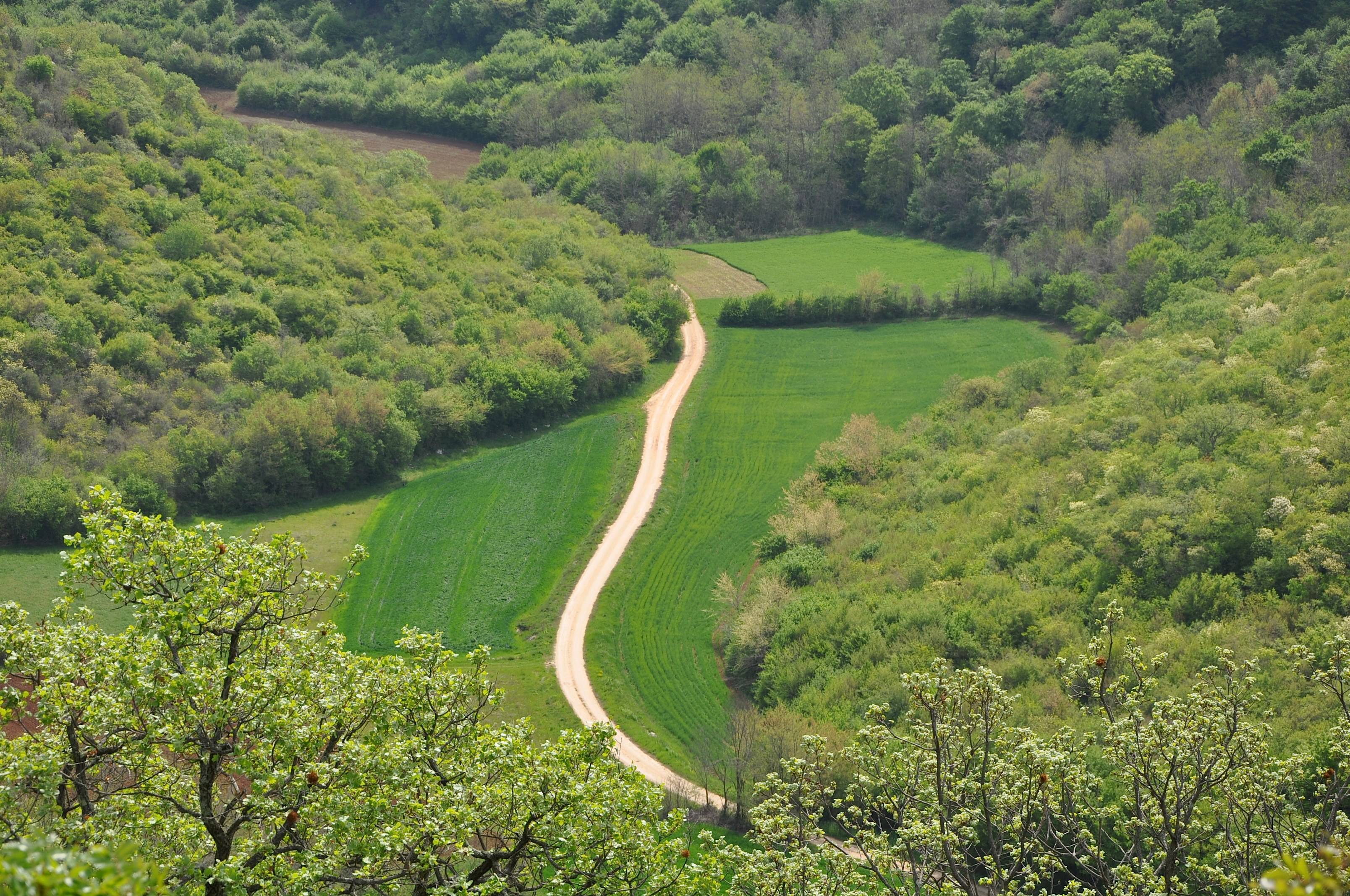 Limska draga, valley near Lim fjord, Istria, Croatia (near Kanfanar - Dvigrad)